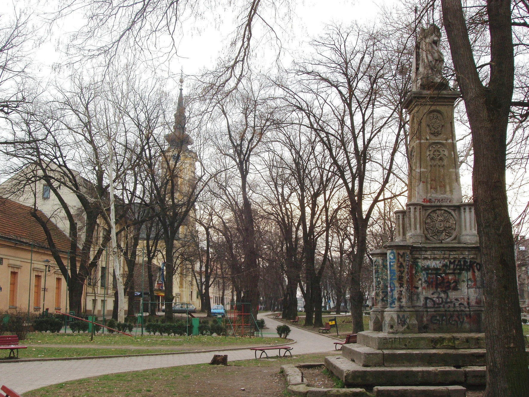 Square of Holy Trinity at Sremska Mitrovica, Serbia, Vojvodina/La place de la Sainte-Trinité à Sremska Mitrovica, Voïvodine, Serbie